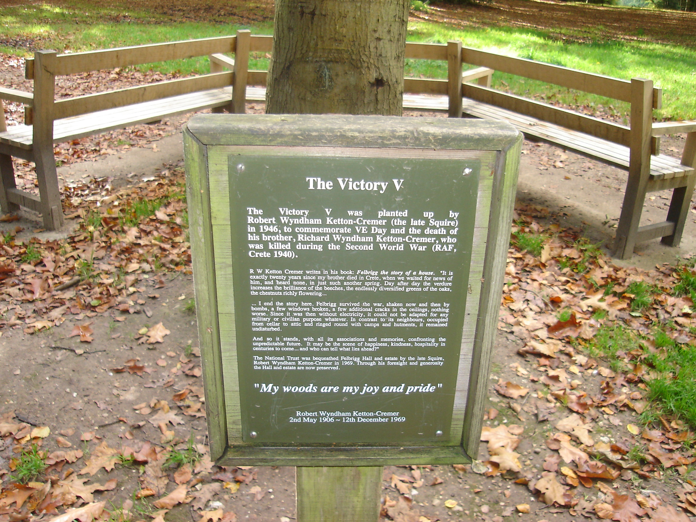 Commemorative plaque at Felbrigg Hall, Norfolk